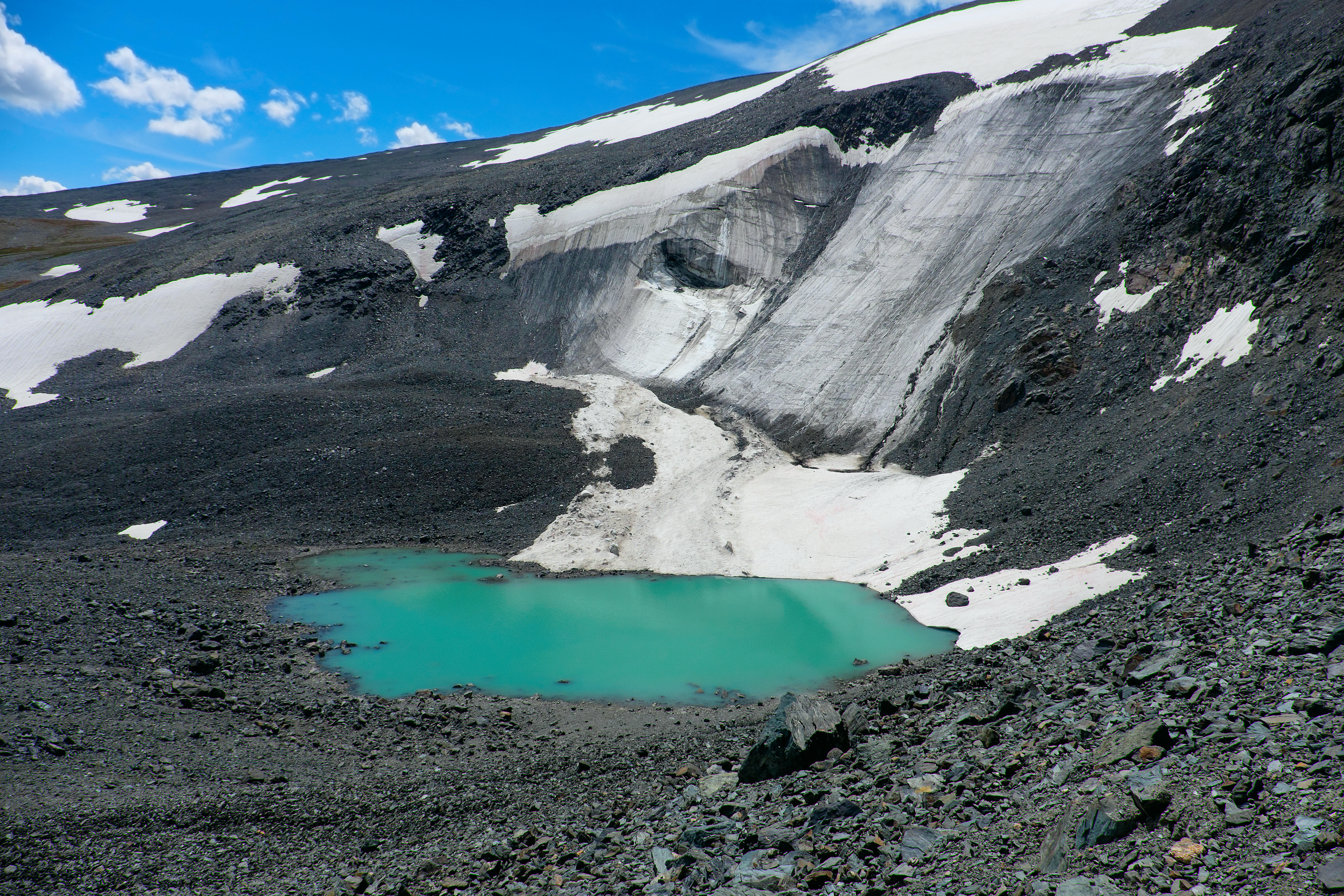 Glacial lake in the mountains of Altai